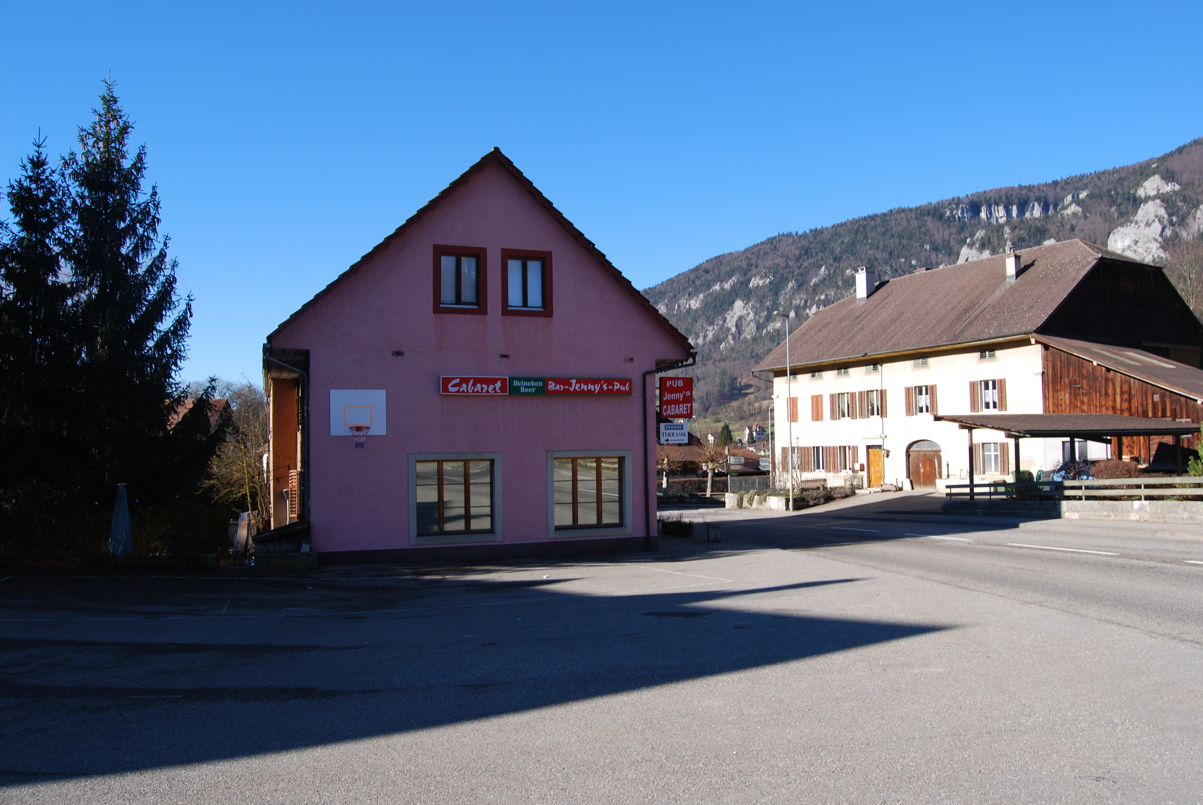 Crémines, canton of Bern, Switzerland